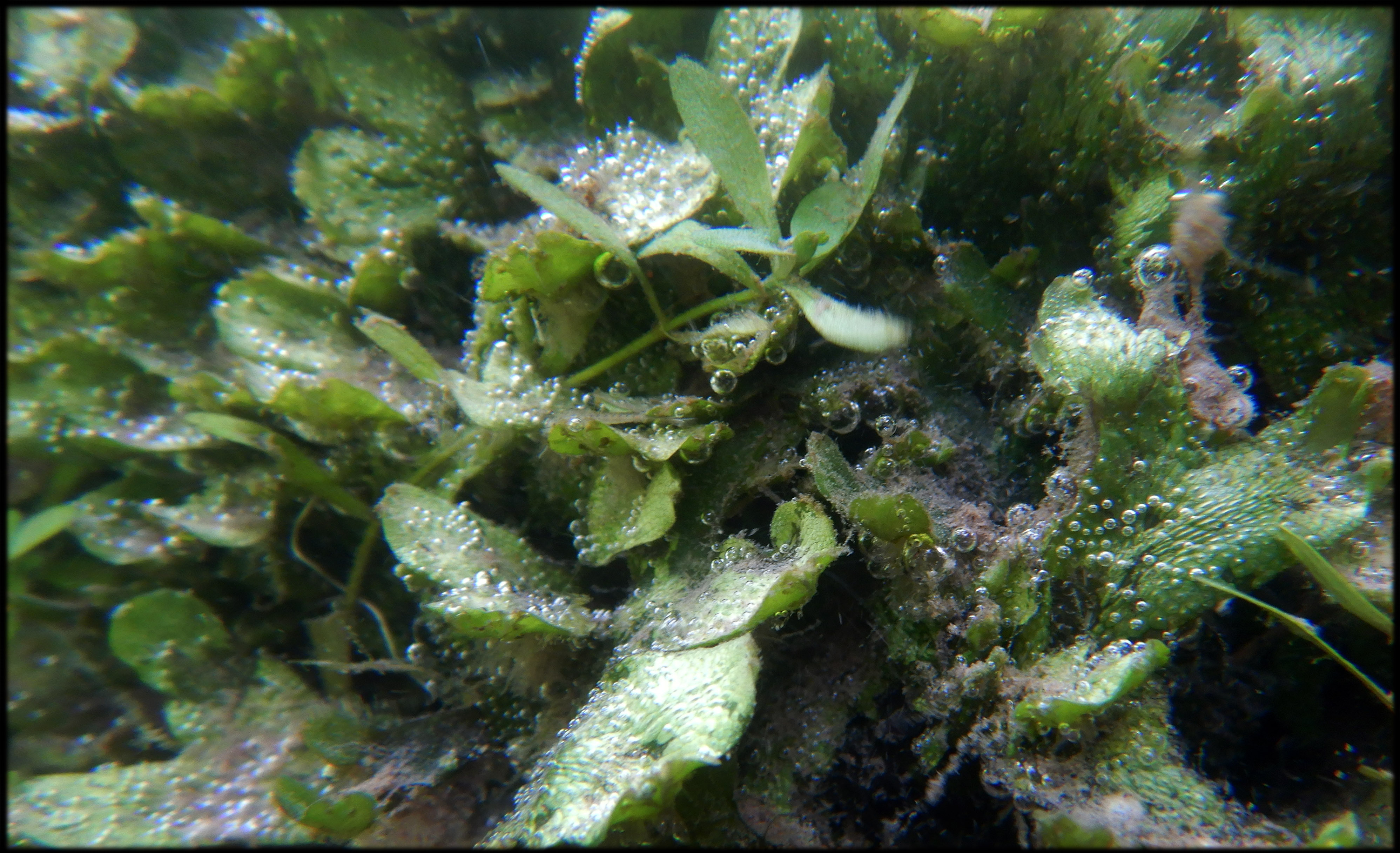 Underwater view of a Marchantiophyta sp. in the river "The Baillons" in Enquin-sur-Baillons in the basin of the Canche in the department of Pas-de -Calais (France), here in August 2017.